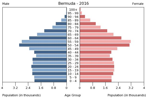 The population pyramid of Bermuda illustrates the age and sex structure of population and may provide insights about political and social stability, as well as economic development. The population is distributed along the horizontal axis, with males shown on the left and females on the right. The male and female populations are broken down into 5-year age groups represented as horizontal bars along the vertical axis, with the youngest age groups at the bottom and the oldest at the top. The shape of the population pyramid gradually evolves over time based on fertility, mortality, and international migration trends.